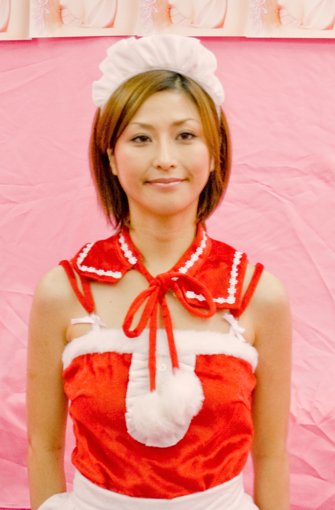 AV actress Akari Asahina at an autograph-signing event in Kobe, Hyogo, Japan.